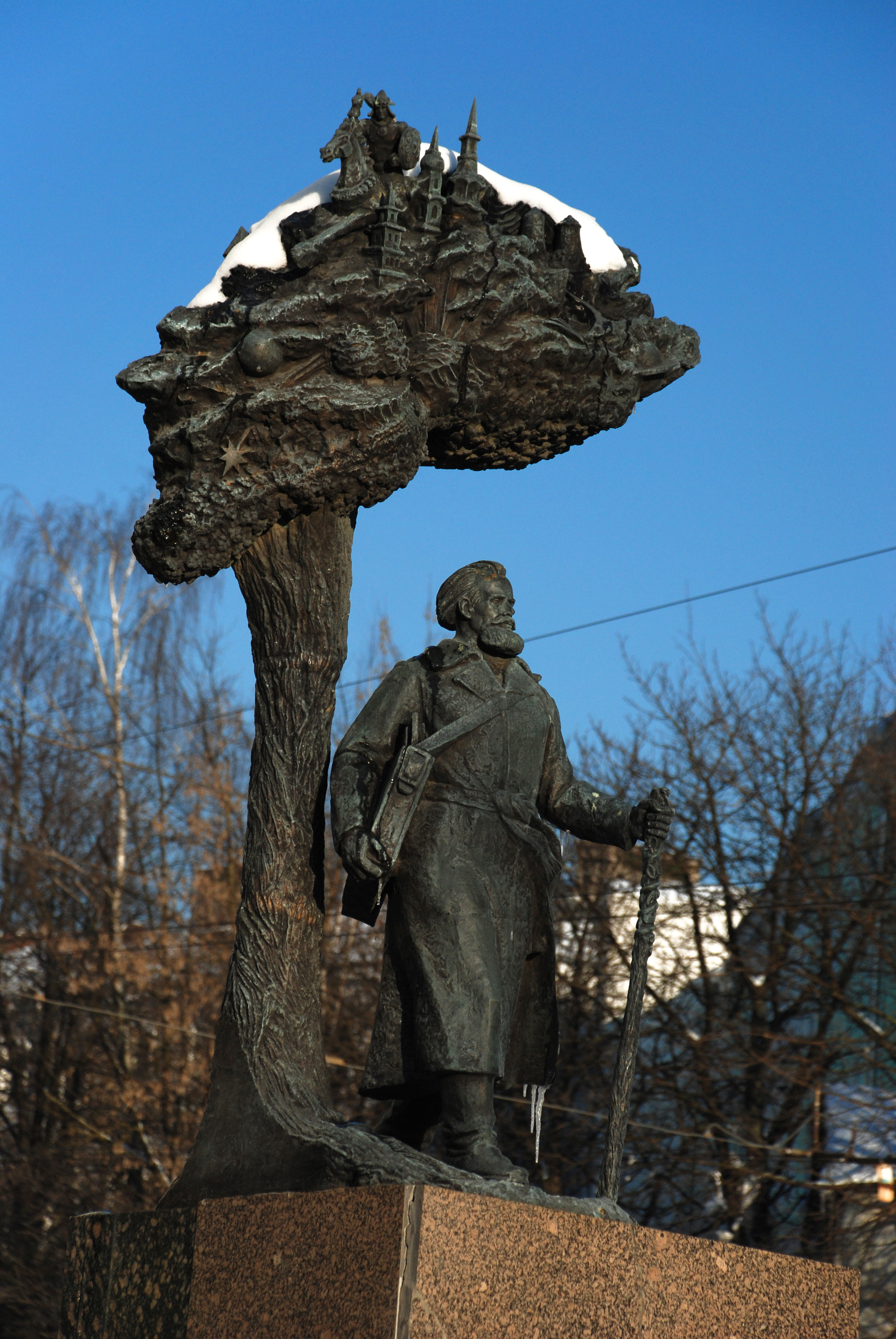 Monument of Belarusian painter Jazep Drazdovič in Minsk.